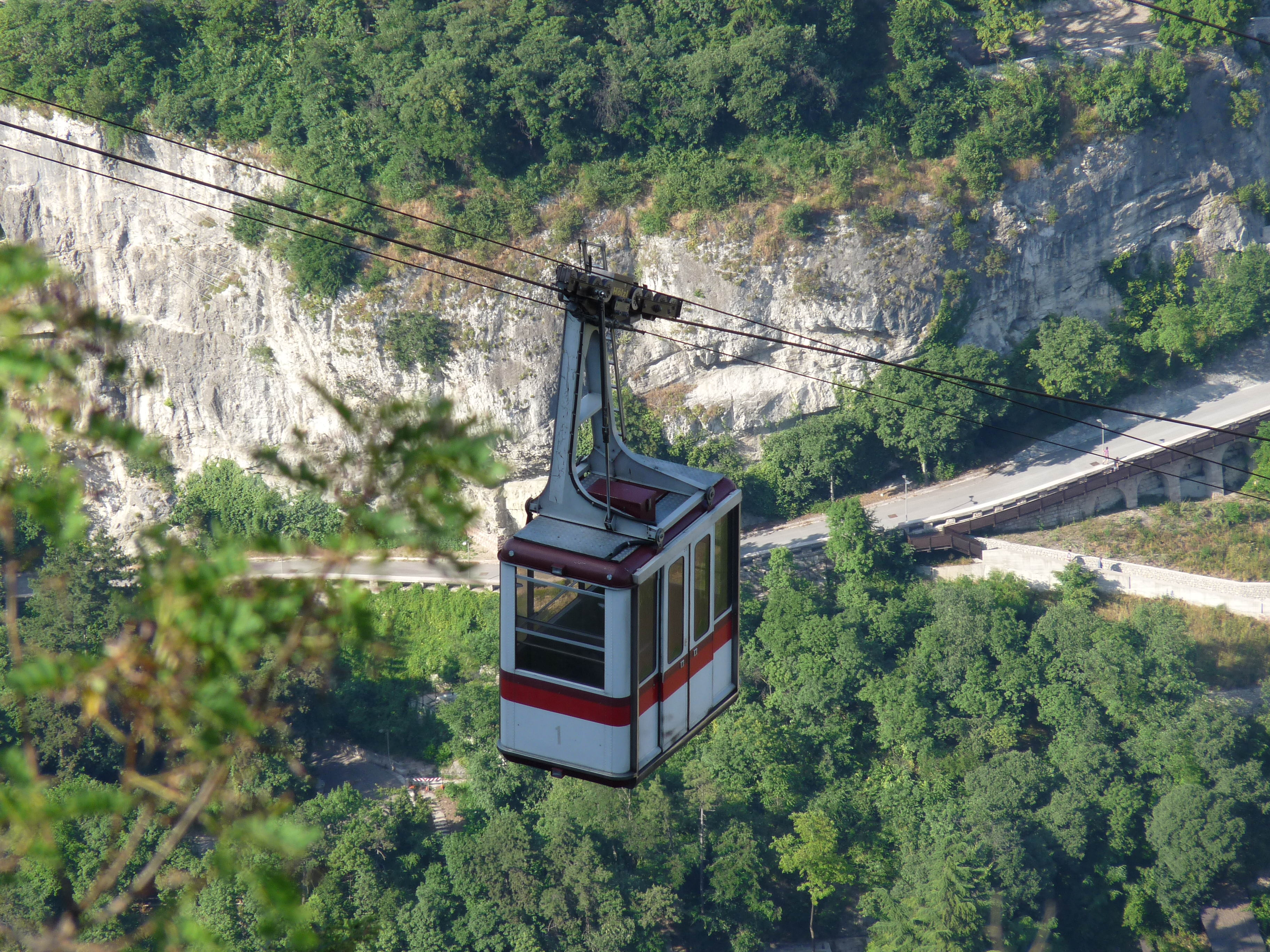 Trento (Italy): cabin of the Trento-Sardagna cableway